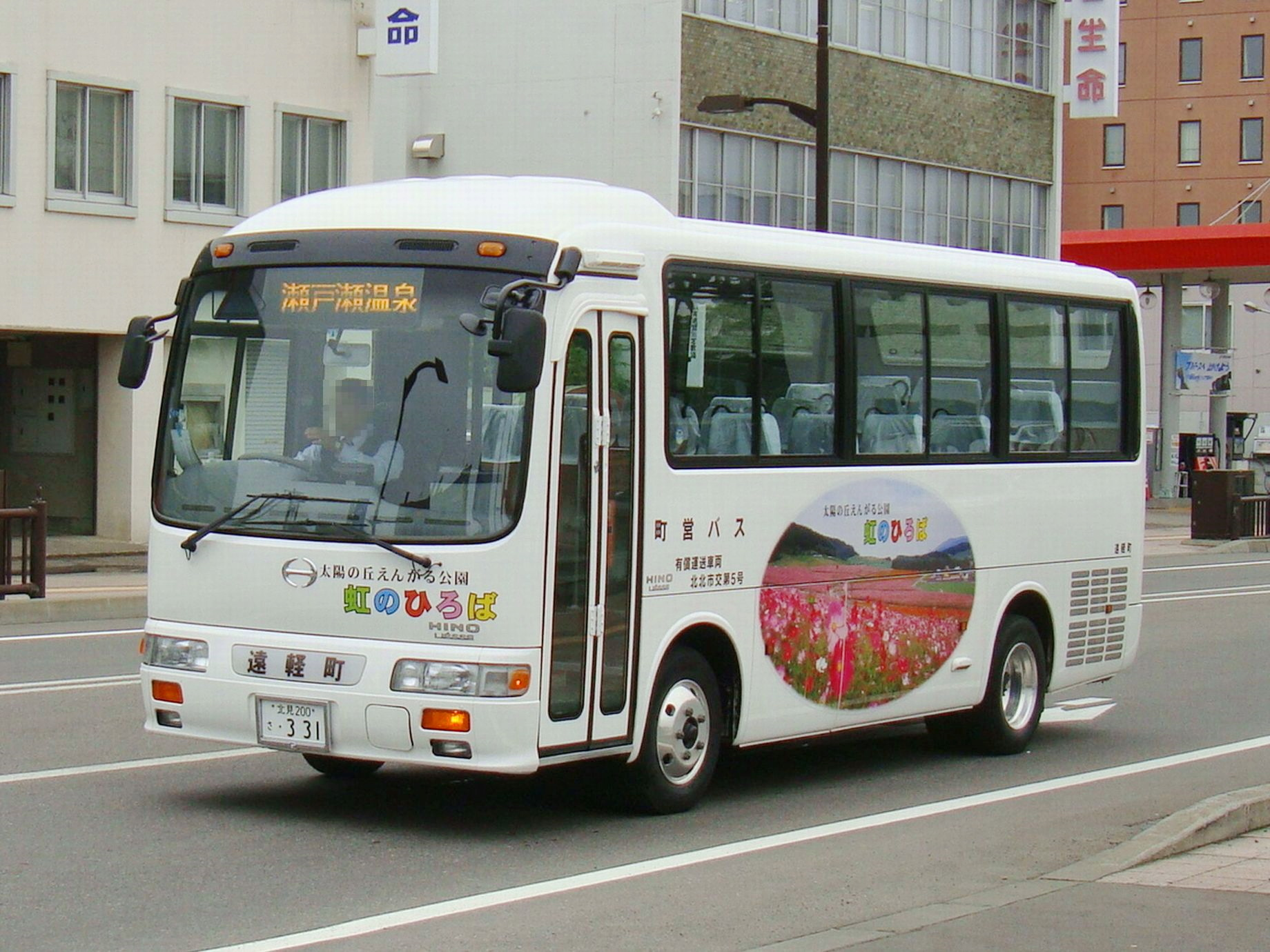 Engaru town line